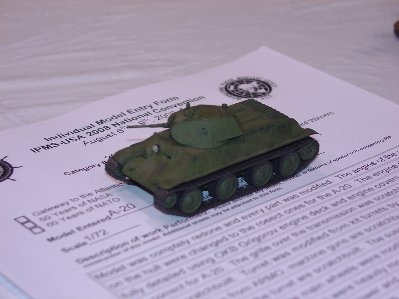 A scale model of the A-20 tank prototype.